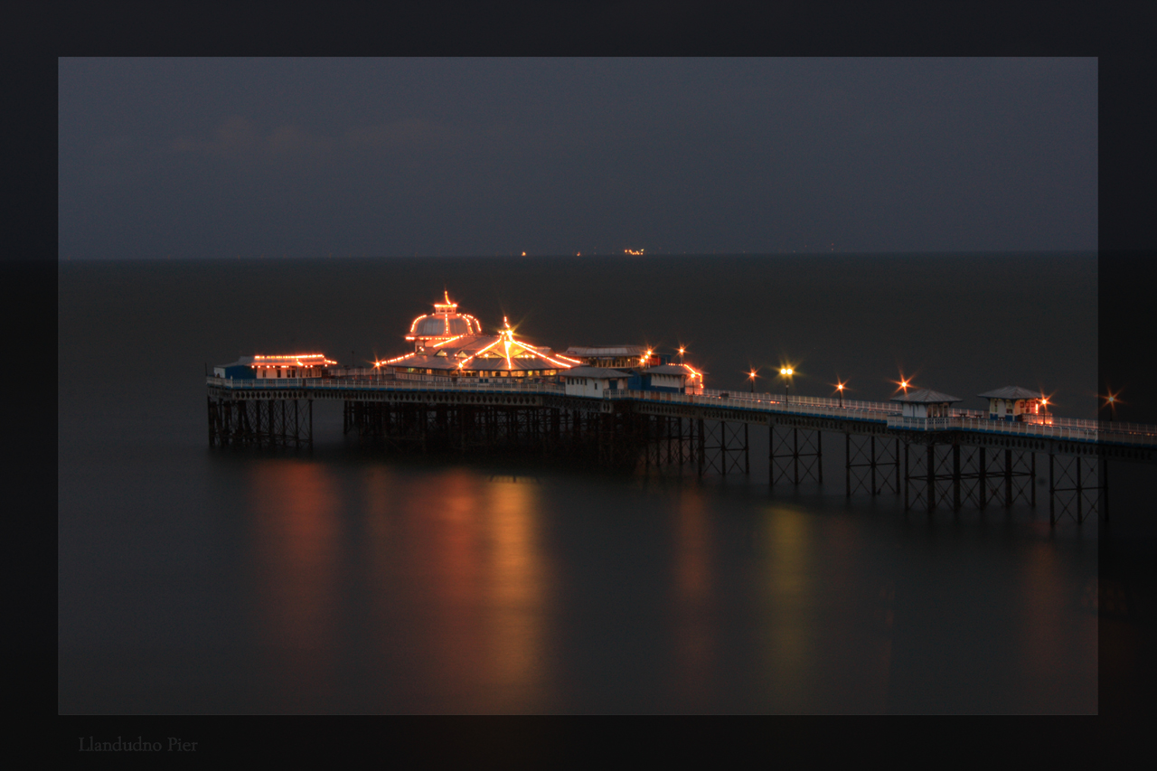 Llandudno Pier